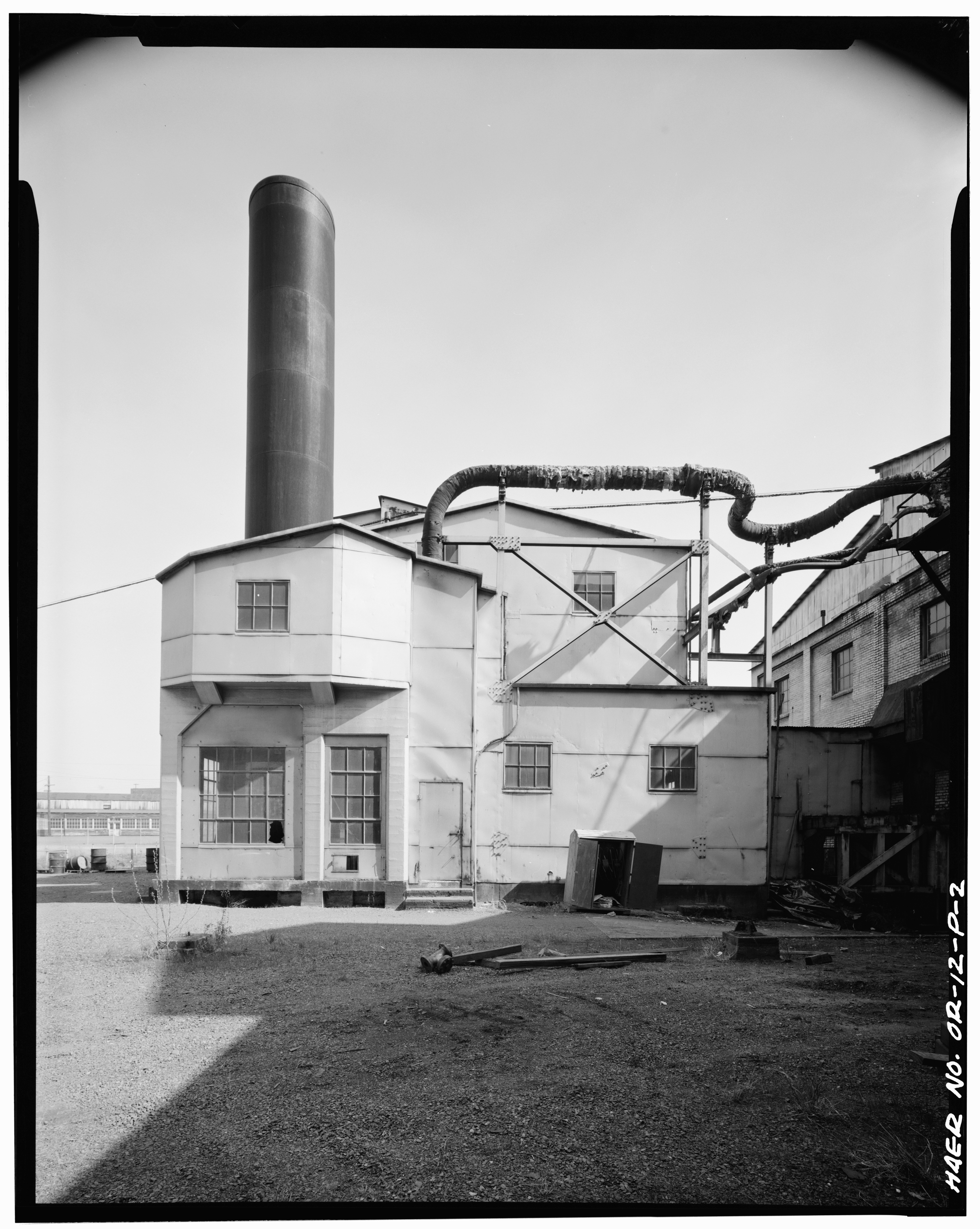 "Portland General Electric Company, Boiler No. 16, 1841 Southeast Water Street, Portland, Multnomah County, OR" Taken in April 1988?